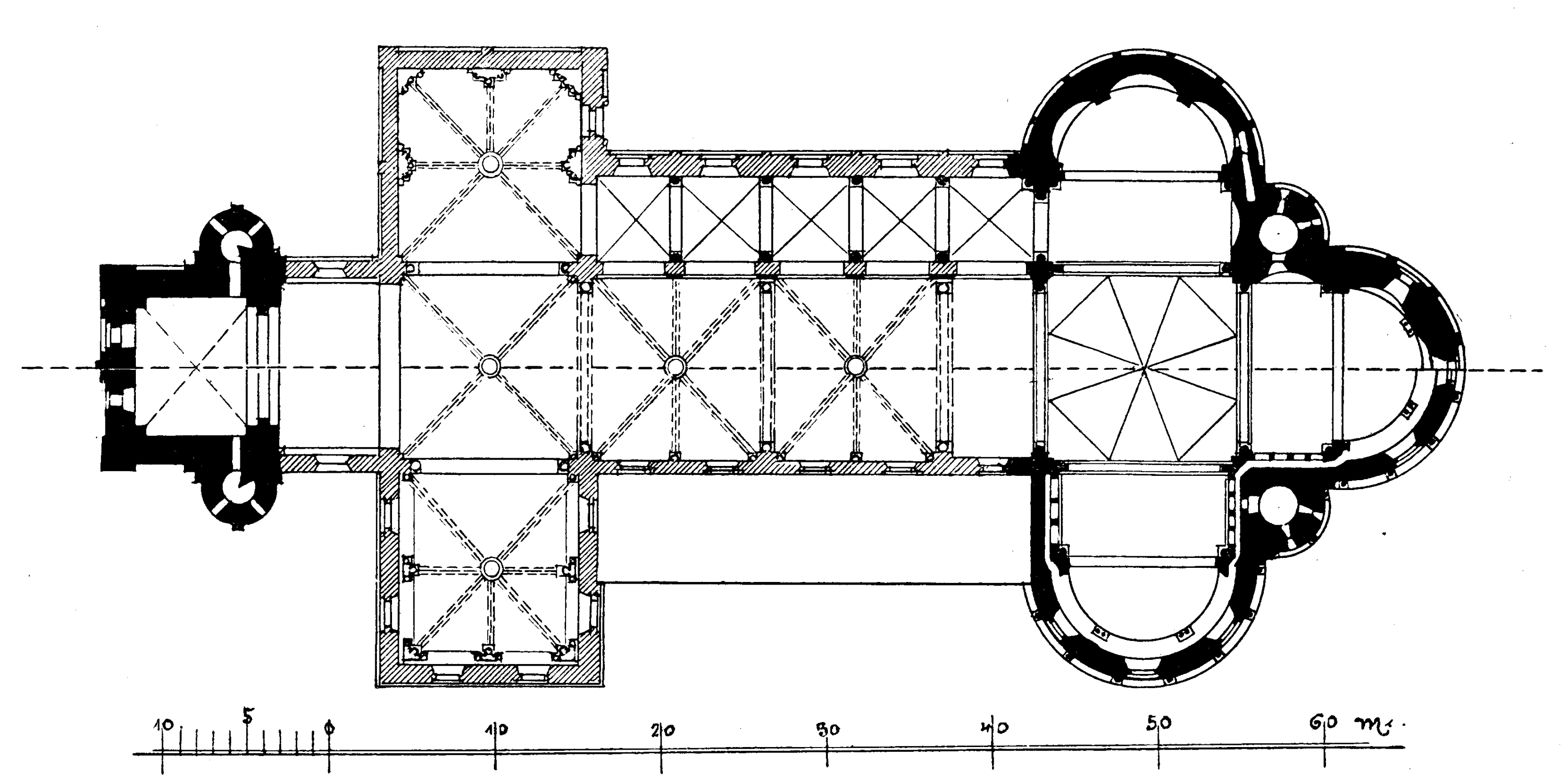 Ground plan of St. Aposteln, Cologne